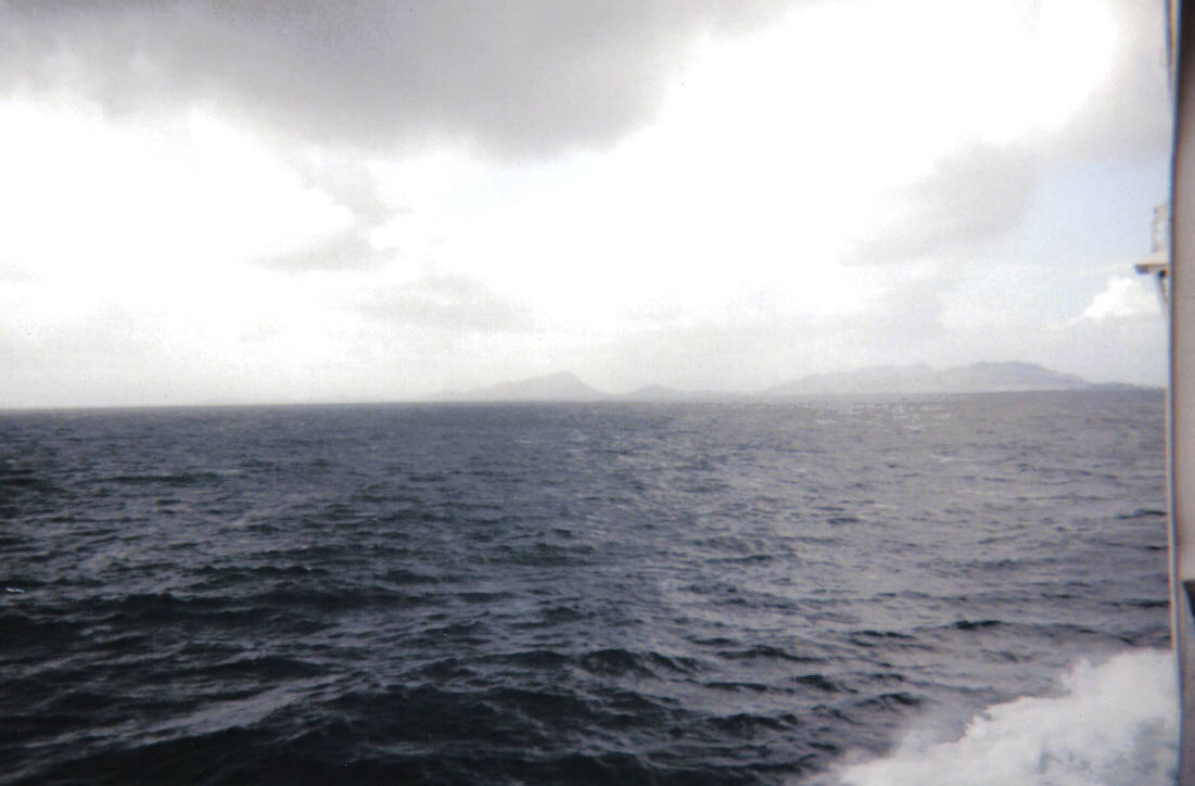 The Little Minch, or A' Mhaoil Bheag,is the strait between the Isle of Skye and the southern half of the Outer Hebrides. Here, the view is approaching Loch na Madadh, Isle of Uibhist a Tuath (North Uist).